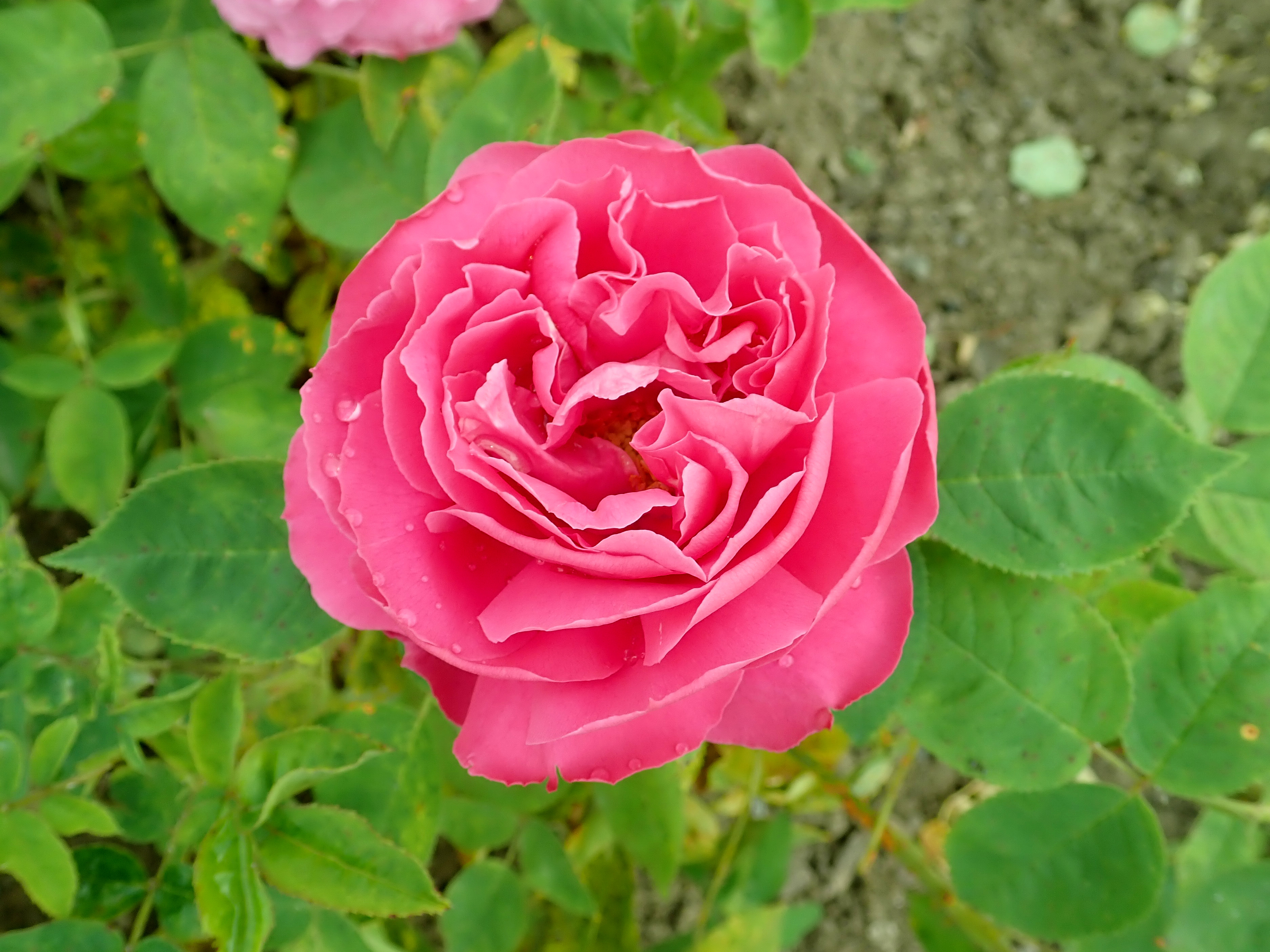 Rosa ‘Dupuy Jamain’ (Dupuy-Jamain, 1868), Europa-Rosarium Sangerhausen.